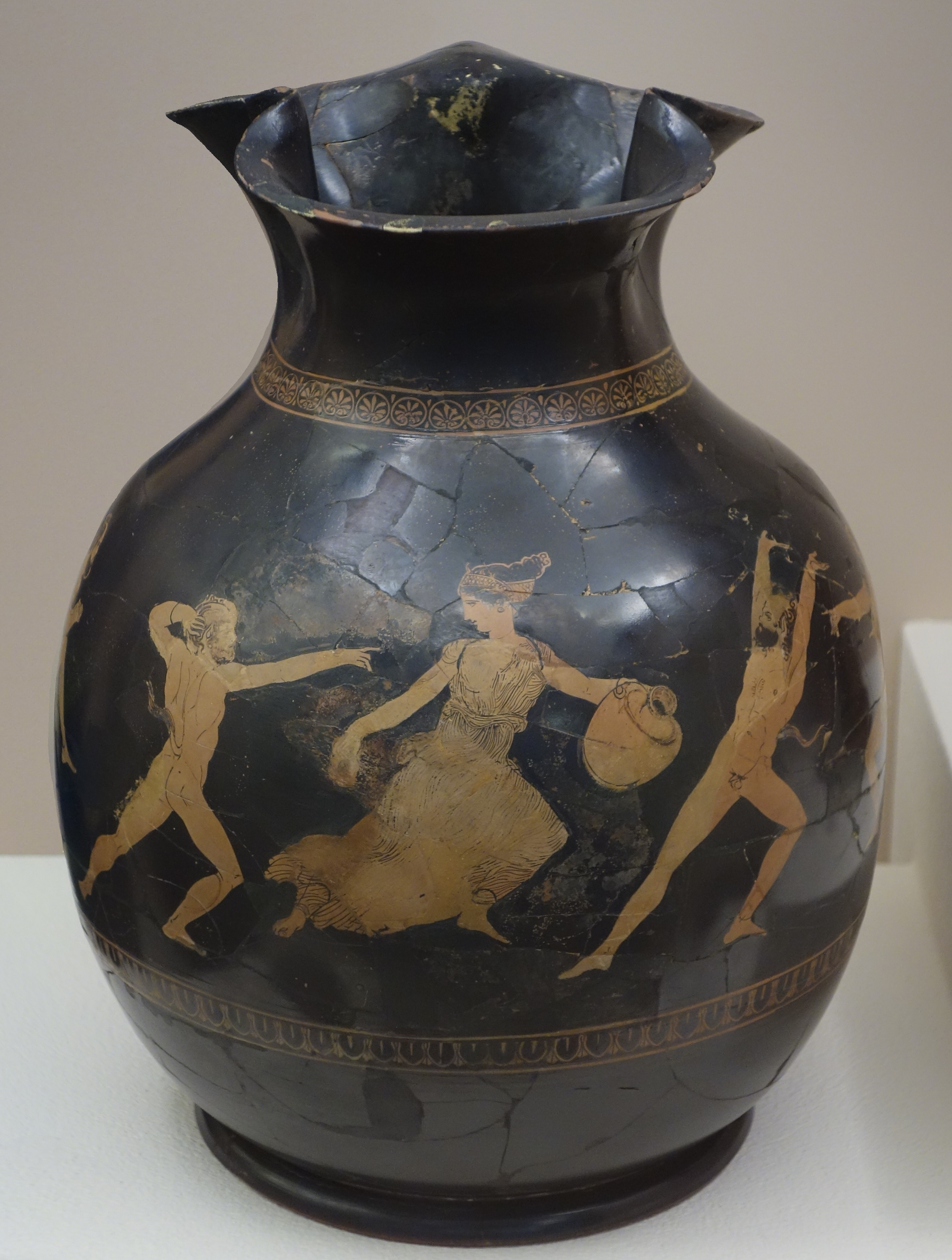 Oinochoe with trefoil mouth: Amymone surrounded by four satyrs, Aison Painter. (440-430BC) (Kerameikios Museum inv. 4290)